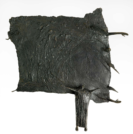 A 1961 sculpture by Luise Kaish; work in the collection of the Smithsonian American Art Museum